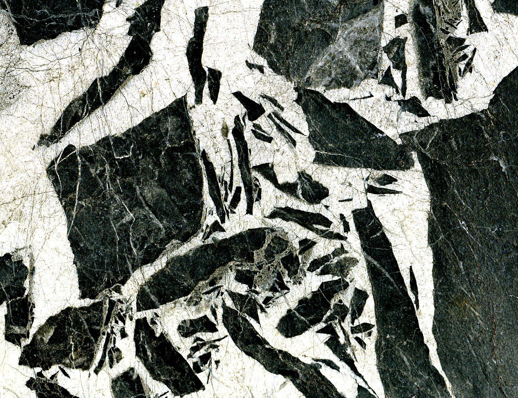 French Grand Antique Marble (field of view 10.9 cm across) - an attractive black & white tectonic limestone breccia from southern France. It has large to small angular fragments of black micritic limestone surrounded by whitish carbonate cement. It has been quarried for millennia (known Roman names for this rock include “Marmor Celticum” and “Marmor Aquitanicum”). The rock was exploited in Roman & Byzantine times, then abandoned and forgotten. Quarrying resumed after rediscovery in the 1700s, but the area is now exhausted (it’s an “extinct” rock). This material came from an old quarry at Aubert, just southeast of Moulis, Lez River Valley, southwest of Saint-Girons, western Ariège Department, central Pyrenees Mountains, far-southern France. Tectonic breccias in the commercial decorative stone trade are typically called “marbles”. By definition, any breccia will have abundant large angular fragments. The tectonic breccias are generated by intense tectonic crushing and fracturing along fault zones in orogenic belts. Cut & polished samples are typically bicolored or multicolored and are quite striking in appearance.